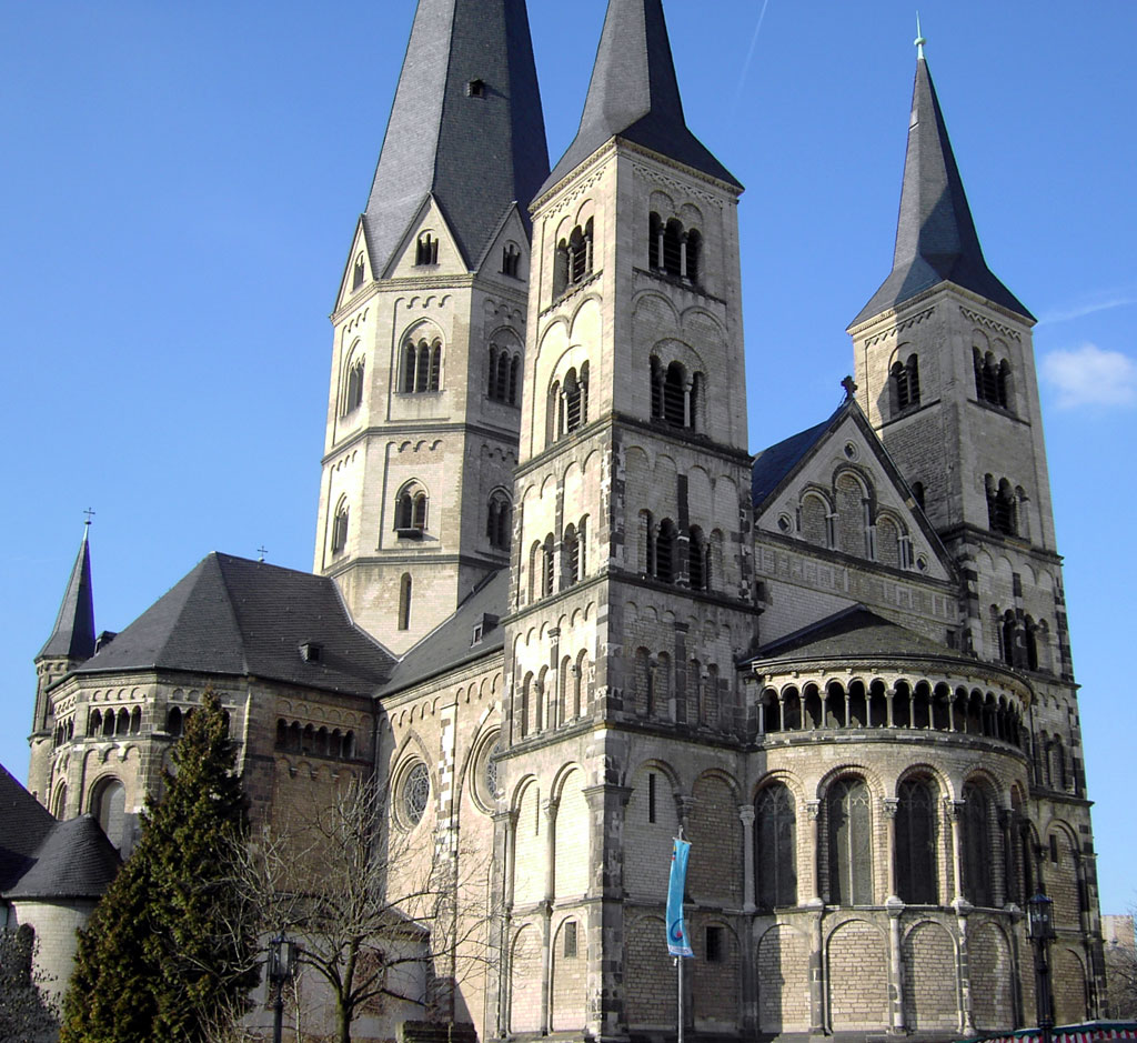 Minster cathedral in Bonn